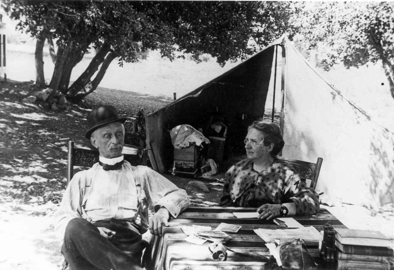 Jacobus Cornelius Kapteyn with his wife Catharina Elisabeth (Elise) Kalshoven in front of their tent at the Mount Wilson observatory, Pasadena, California, USA. They visited from July to October 1909 (his second visit) for his astronomical work, so this photograph was taken in that period. Notice the facial expressions and body language of the pair: her left index finger raised and intent stare, his averted look, with his legs uncomfortably crossed with an awkward left little finger on the edge of the table.